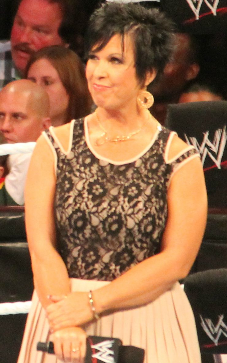 Vickie Guerrero on WWE Raw on February 18, 2013. Cropped from original image.